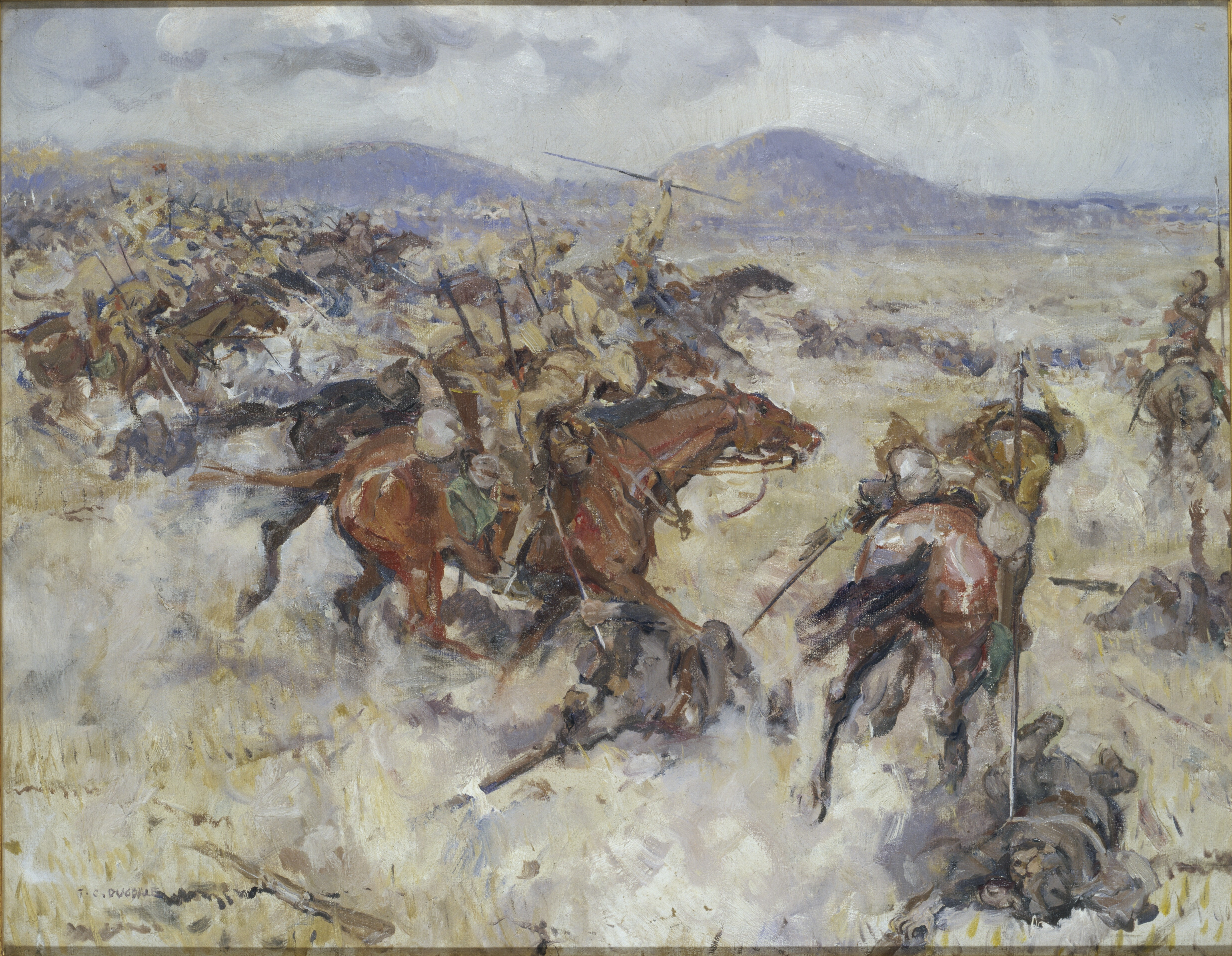 Charge of the 2nd Lancers at El Afuli - in the Valley of Armageddon, 5 am, Friday 20th September 1918 image: A line of Indian lancers charge at Turkish infantry across a valley, with high ground visible in the background. In the foreground two Turkish infantrymen lie on the ground as they are speared by two Indian lancers.